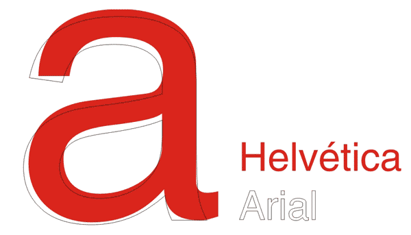 Comparison between Arial and Helvetica.